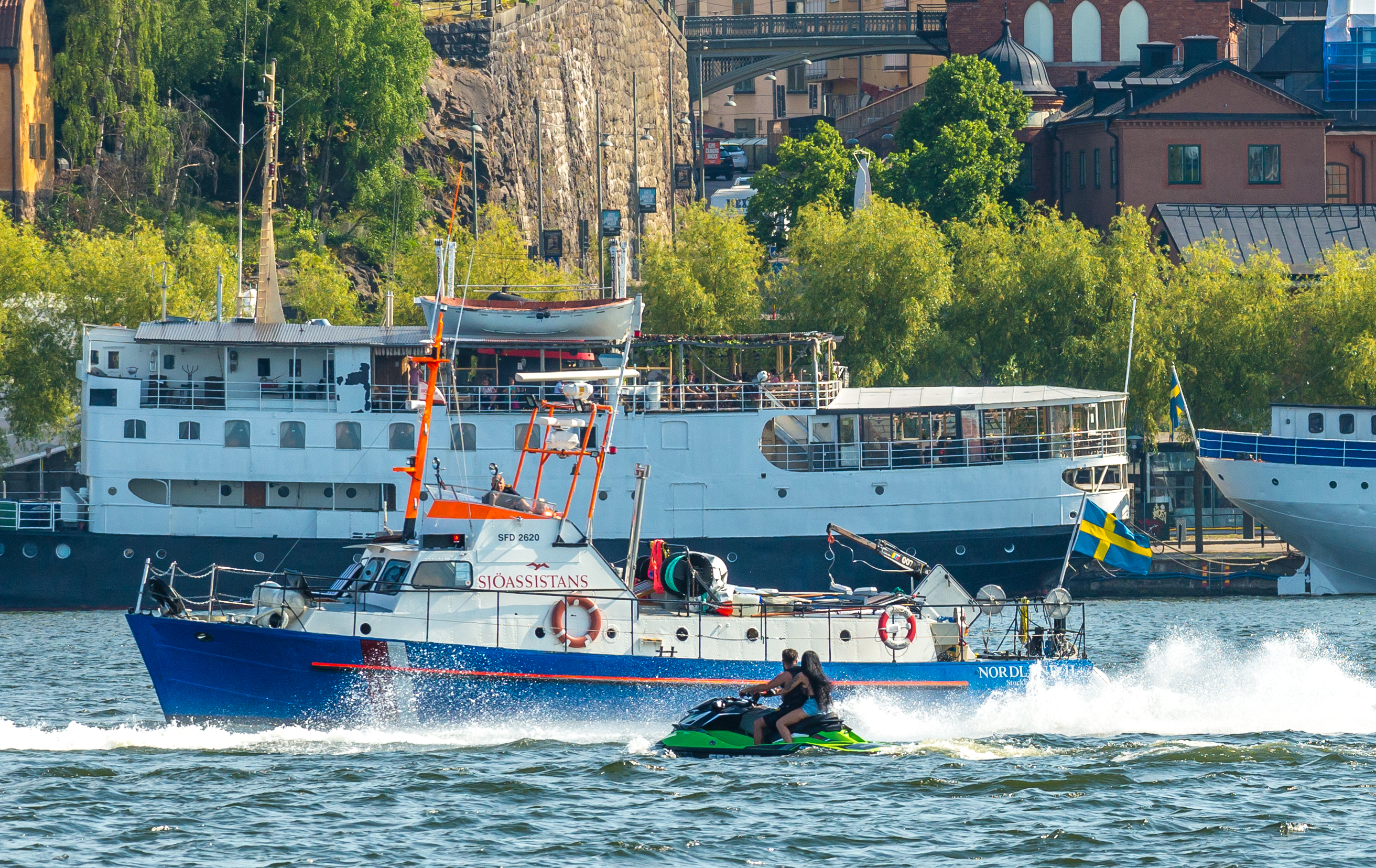 The Nordland II water assistance boat on Riddarfjärden in Stockholm 2020.